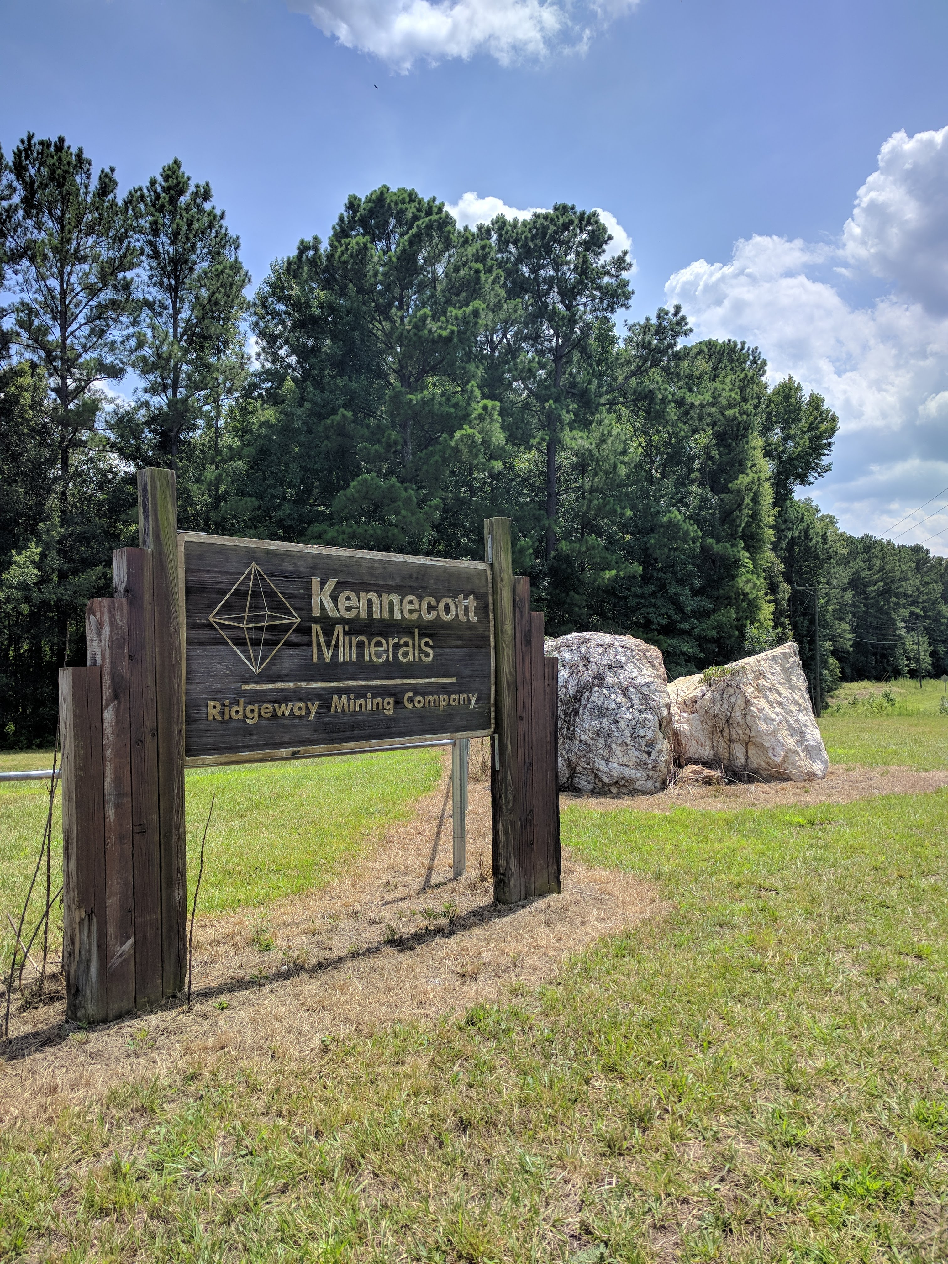 Sign at the entrance to the Ridgeway mine. I suspect the rocks in the background are ore-bearing but that's just a hunch.